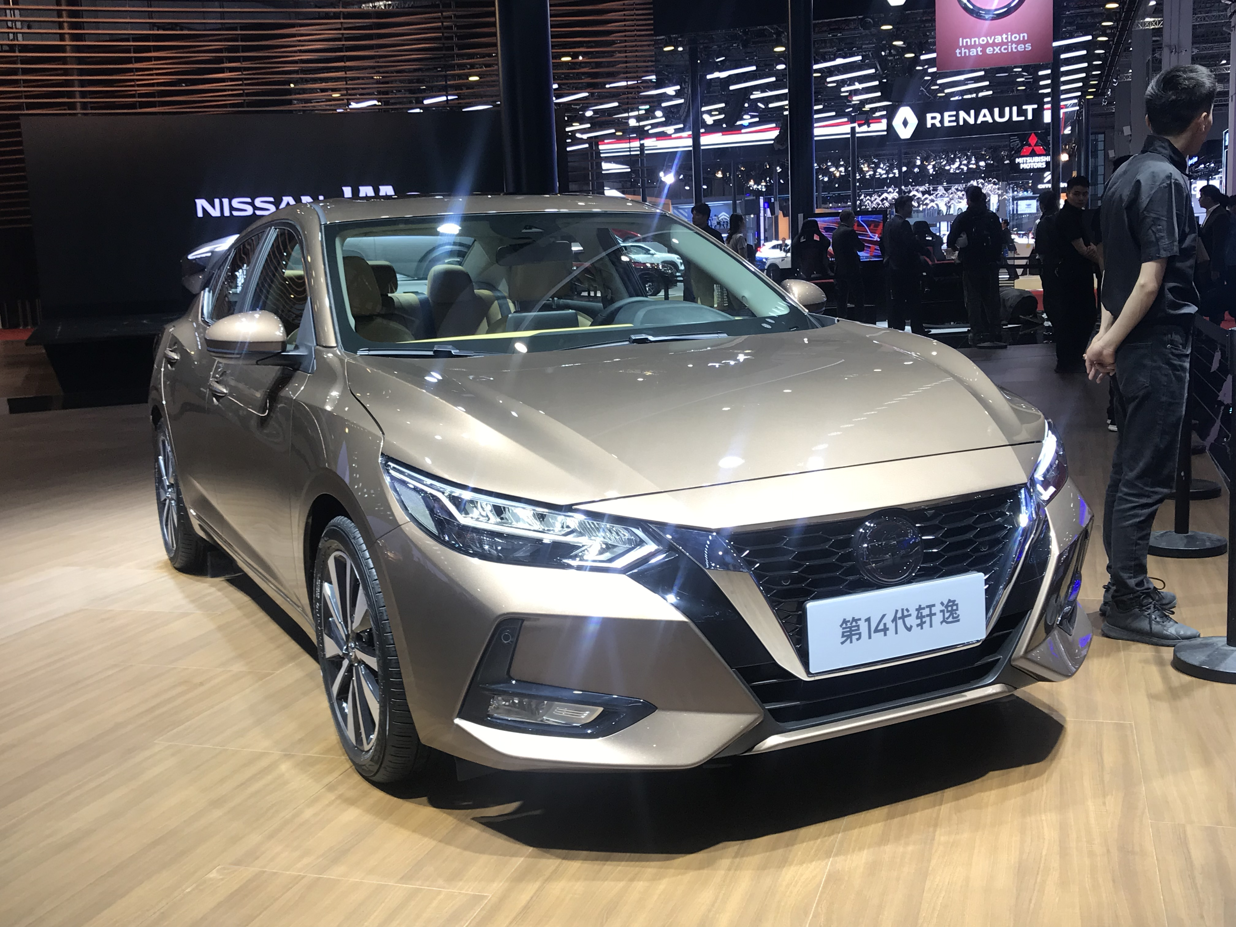 2020 Nissan Sylphy B18